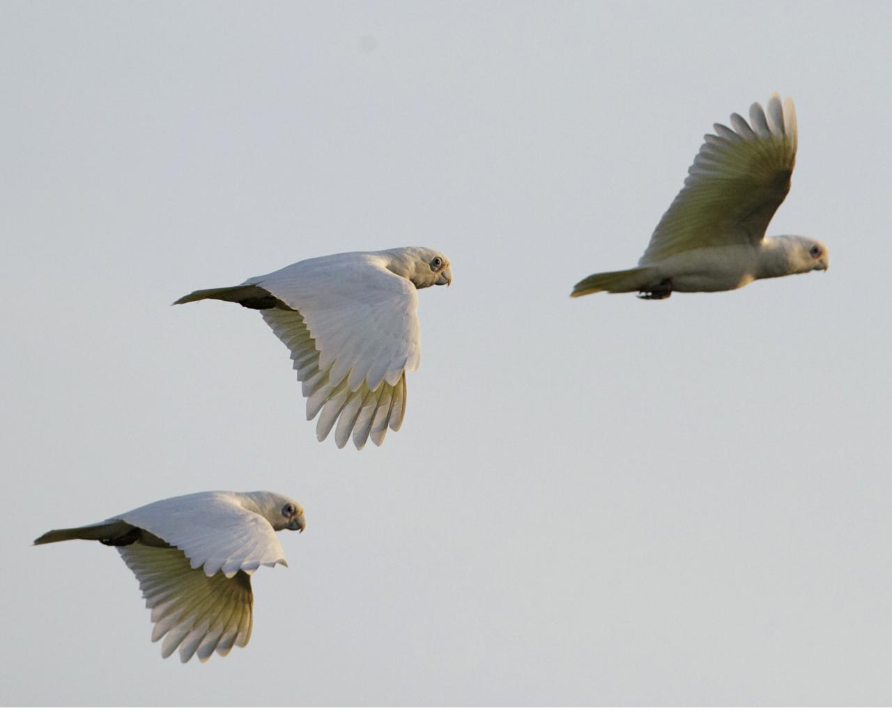 Three Little Corellas flying at Mary River National Park, Northern Territory, Australia.